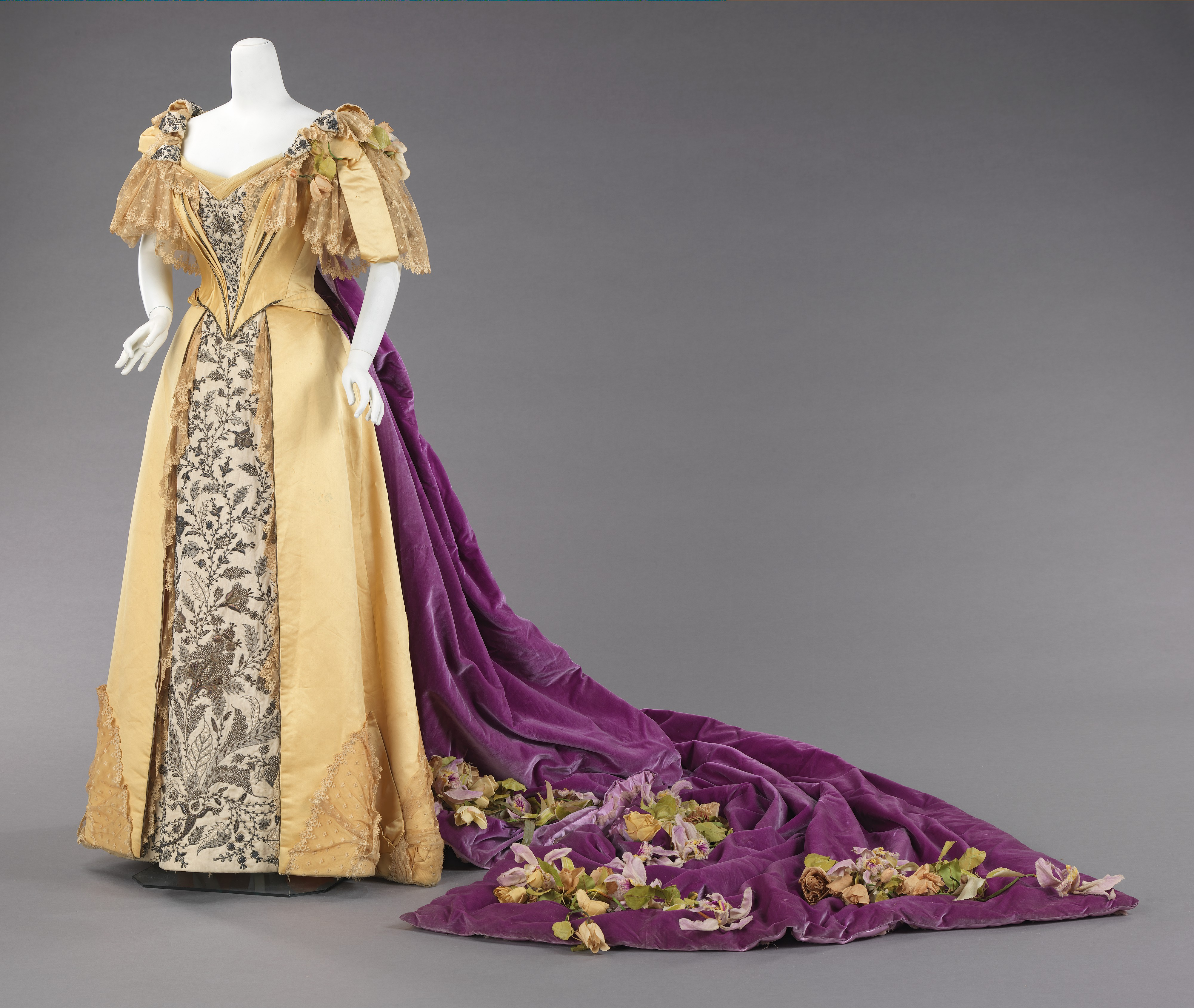 probably American; Court Presentation Ensemble